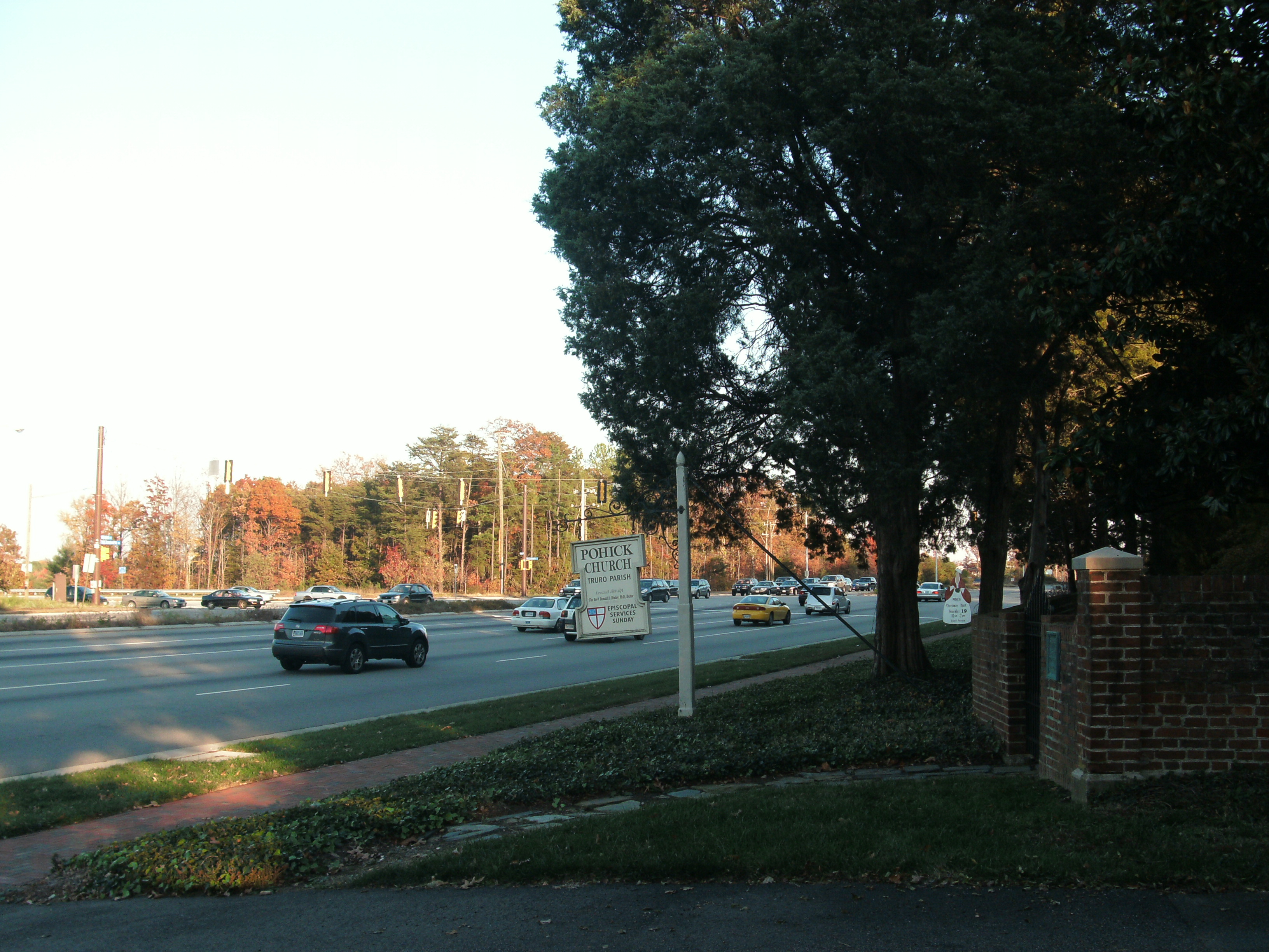 Pohick Church - November, 2009 GEDSC DIGITAL CAMERA